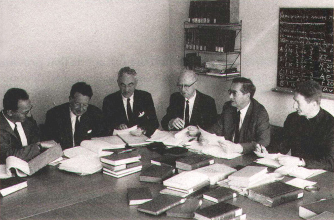 The commitee for the Bible Societies` "Greek New Testament". From right to left: Carlo Maria Martini, Kurt Aland, Allen Wikgren, Bruce Metzger and Matthew Black (with Klaus Junack, Aland`s assistant).